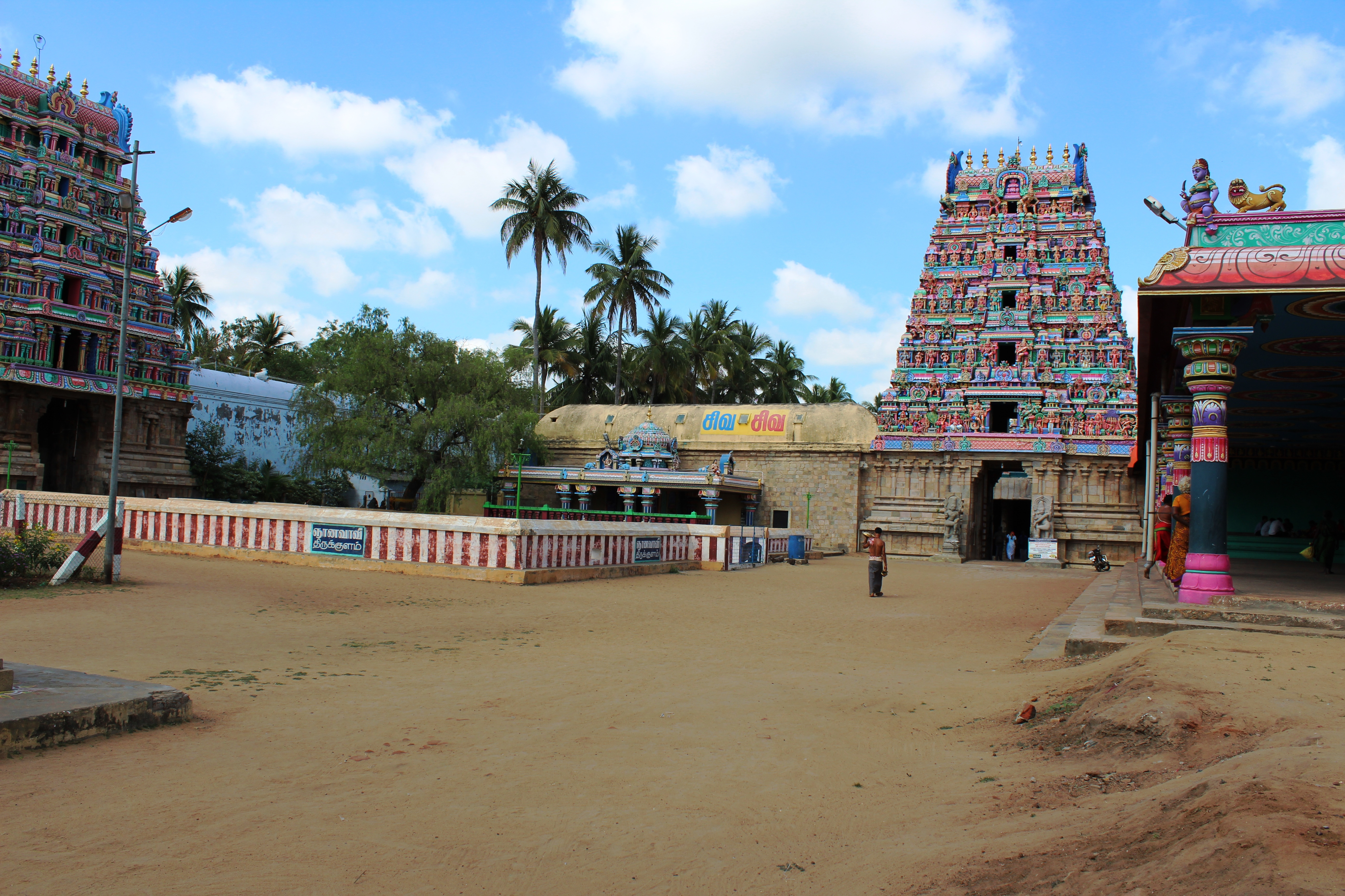 Patteeswaram